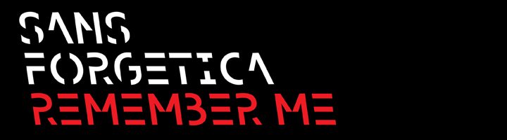 Sans Forgetica Typeface (2019)